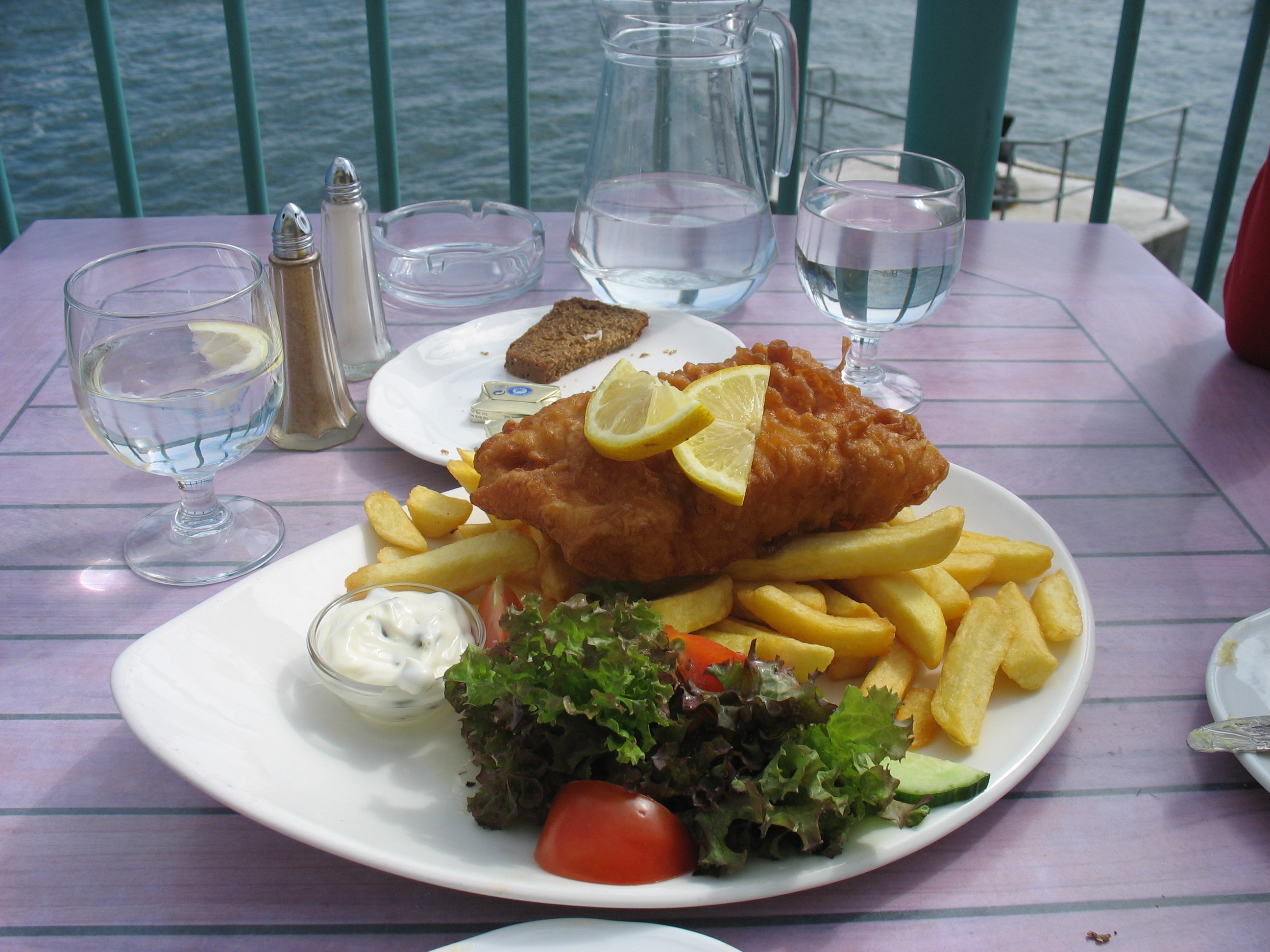 Fish and chips in Ireland